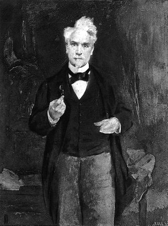 Portrait of Henri Rochefort (1831-1911)